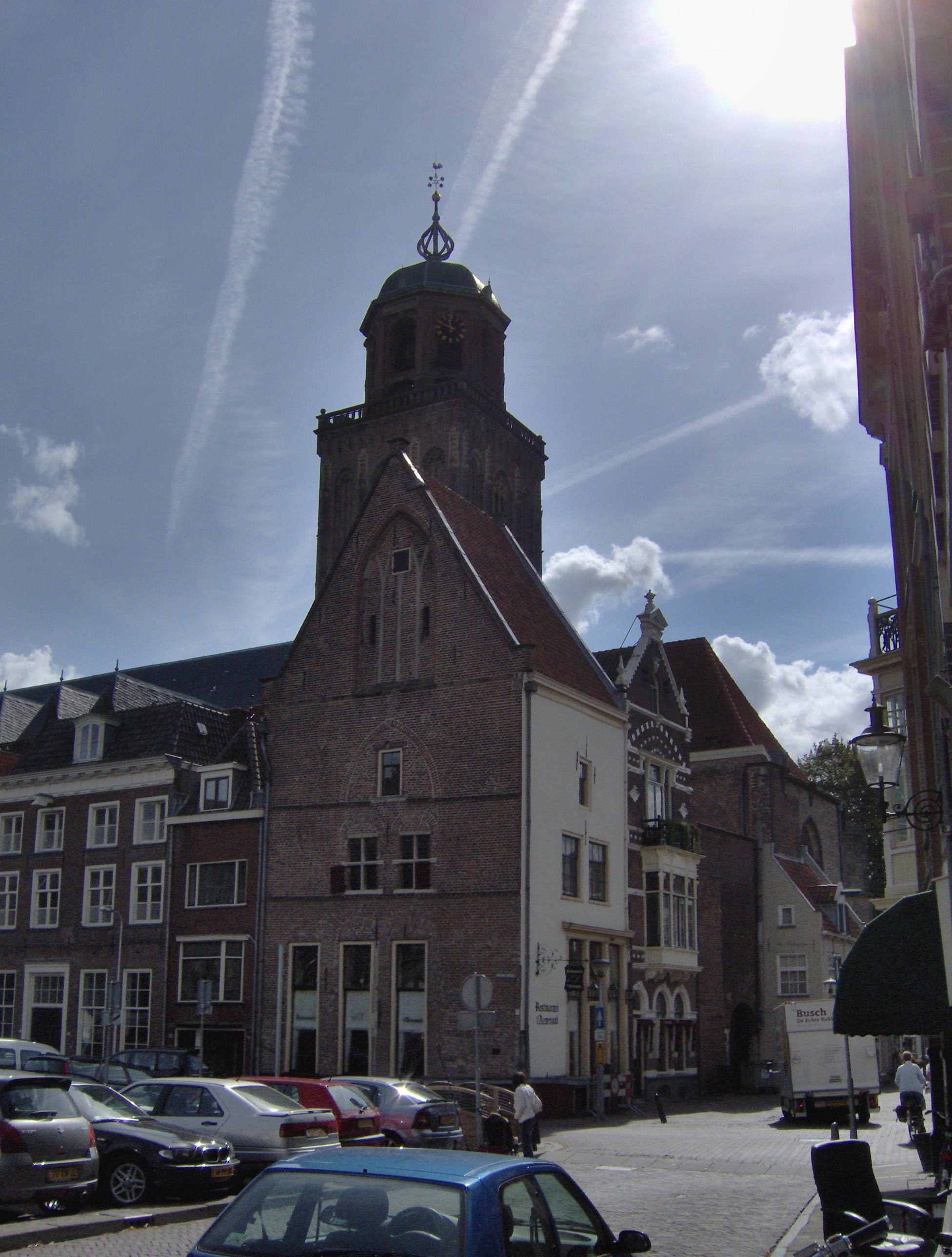 Grote Kerkhof in Deventer (in the background the Lebuïnus Church)